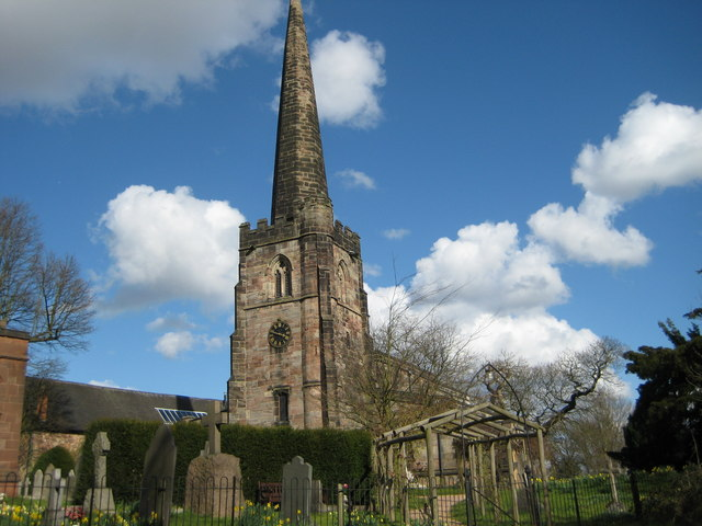 St Matthew's at Morley Looking towards the church and the Tithe Barn, now converted, beyond. Features a wall of stained glass depicting the story of Sir Robert of Knaresborough along the north aisle which came from Dale Abbey in 1539, home of the fine Sacheverell tombs.